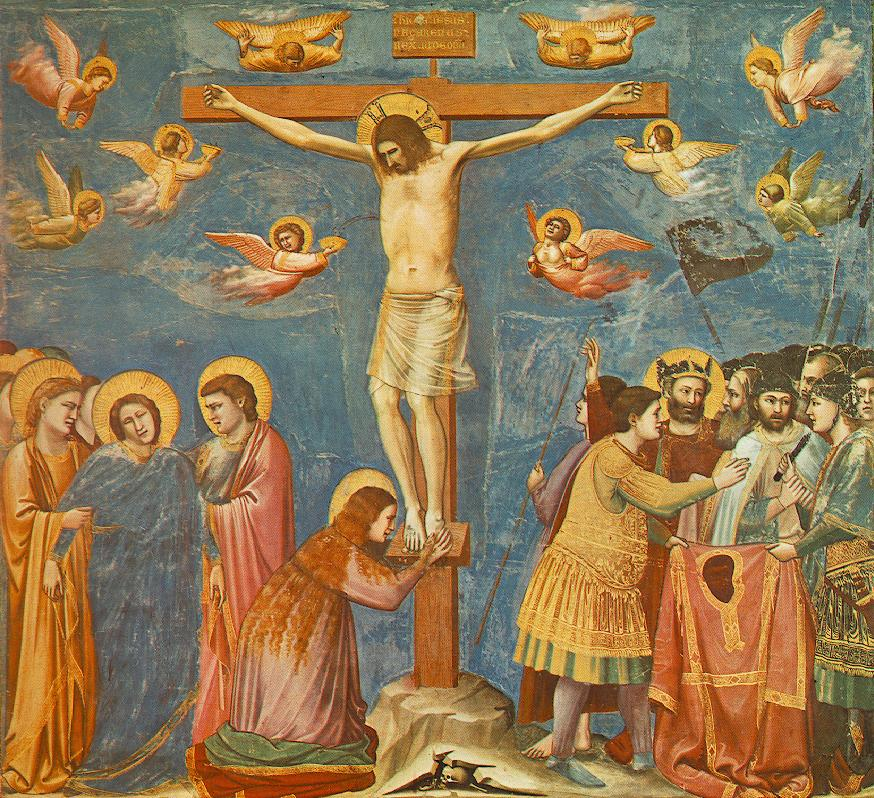 Life of Christ